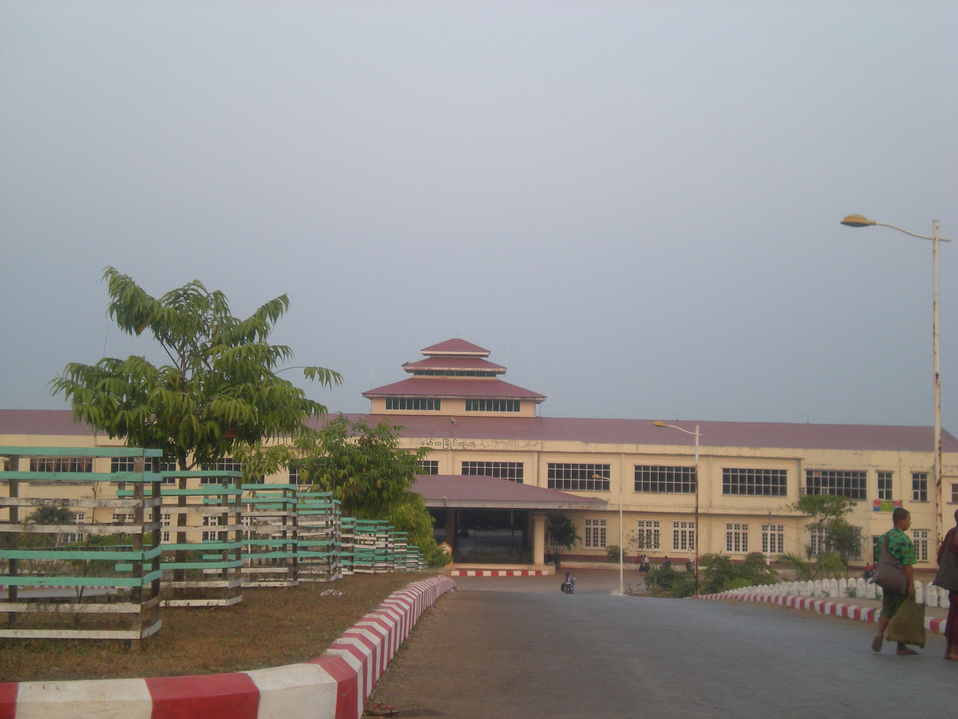 New Railway Stationမြန်မာဘာသာ: မော်လမြိုင်ဘူတာ